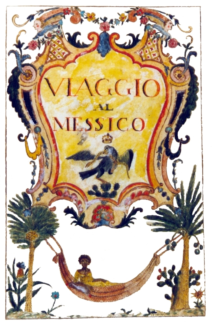 Front page of the original manuscript by Ilarione da Bergamo